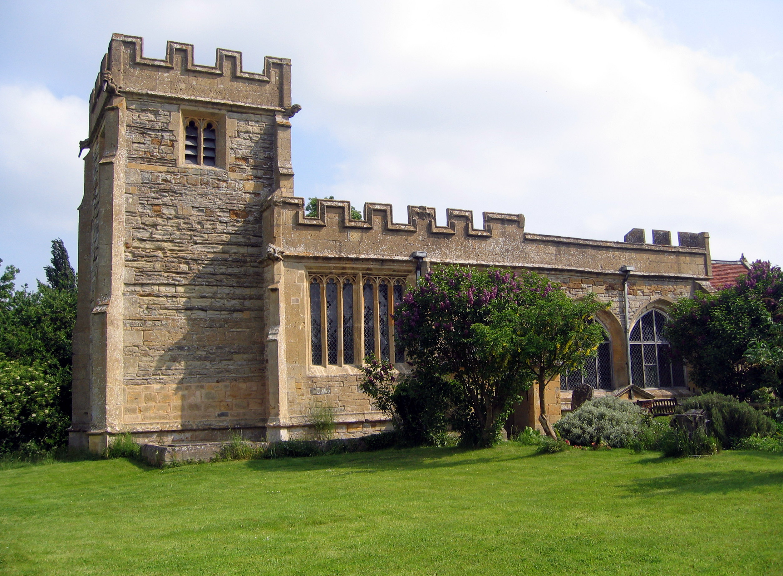 Photograph of the southern aspect